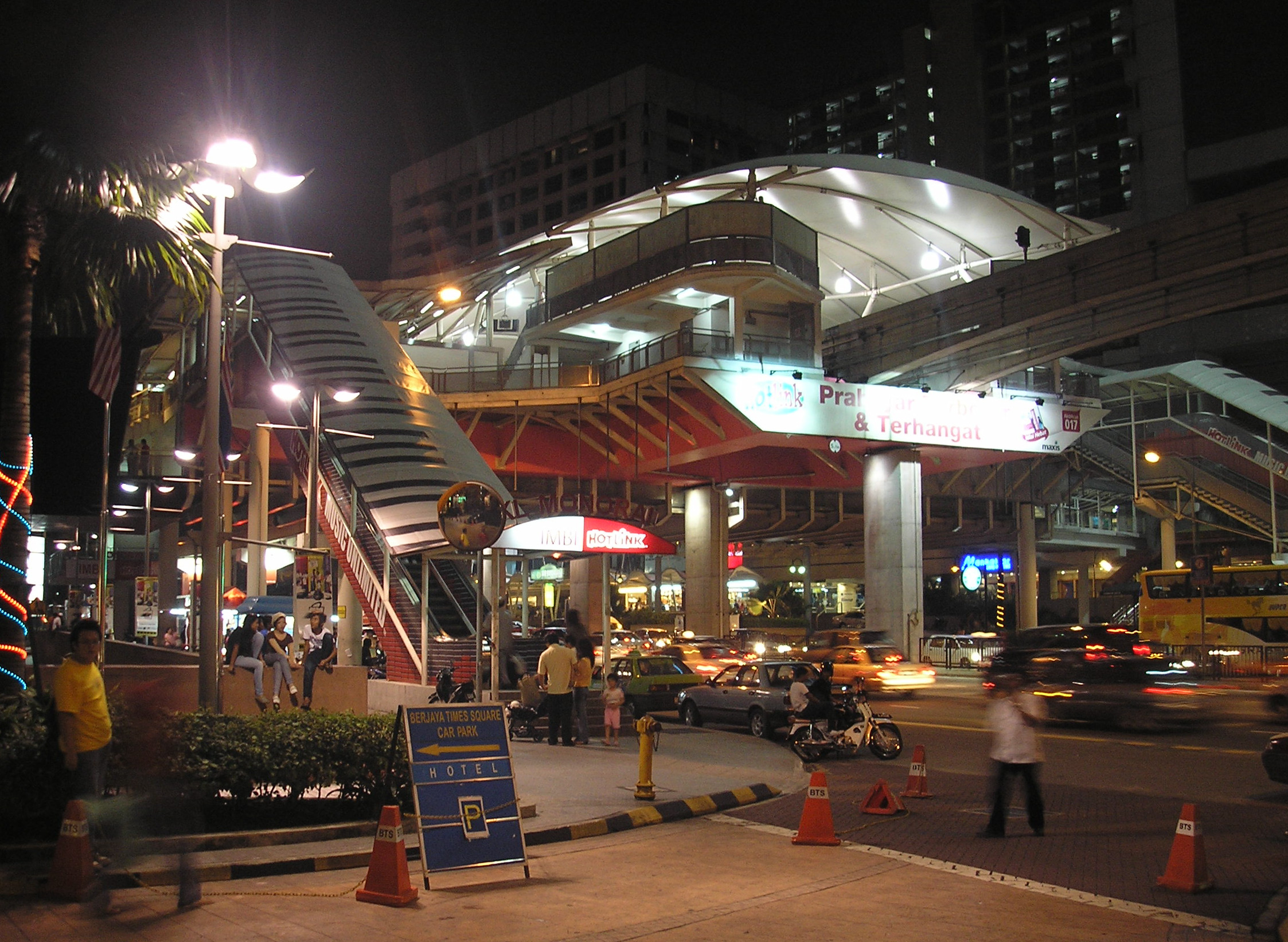 The Imbi station (Kuala Lumpur Monorail) (exterior), Kuala Lumpur, Malaysia.